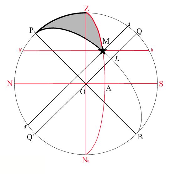 figure 1529a of APN2002